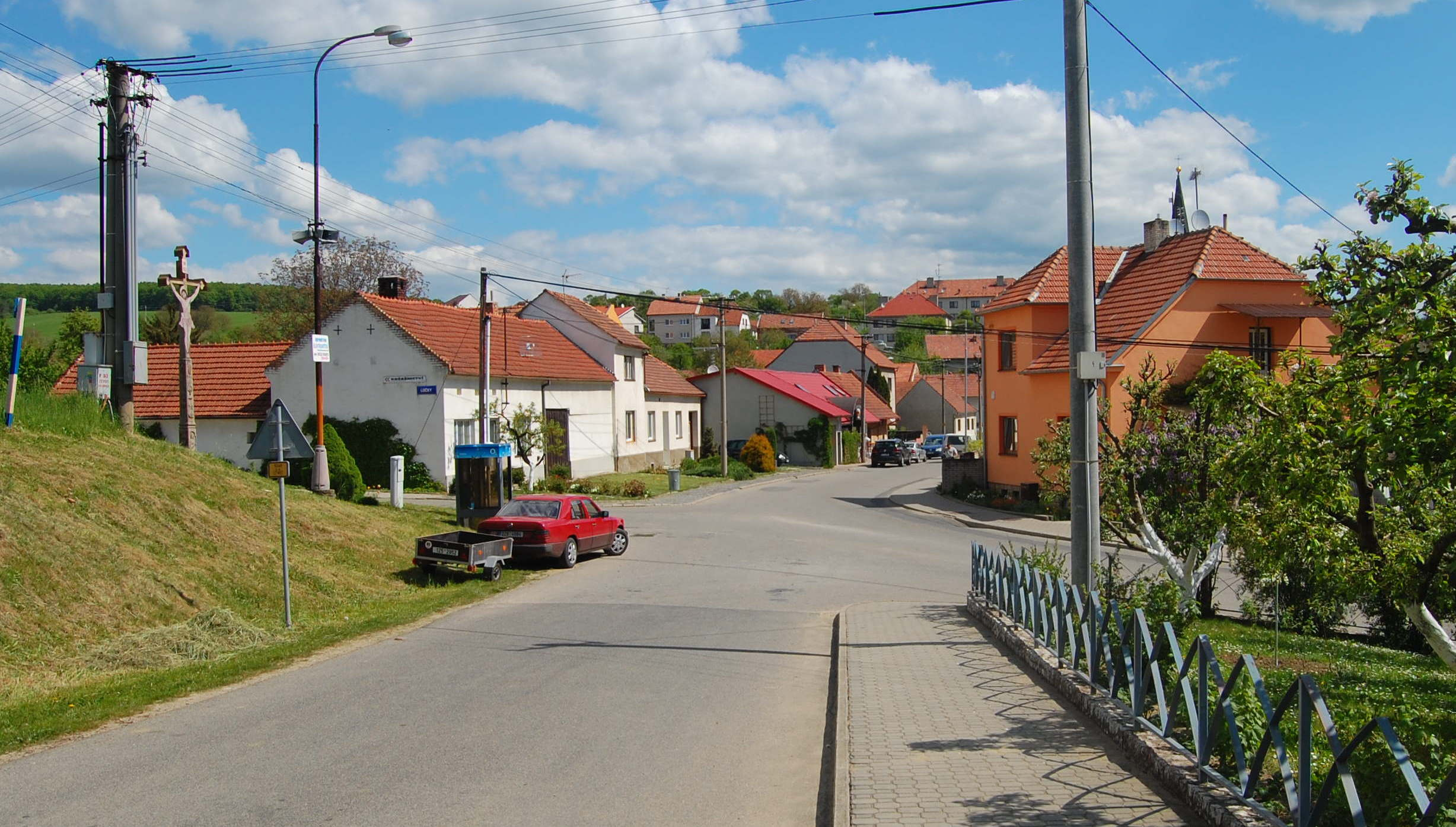 Uhersky Brod - Ujezdec, Czech Republic